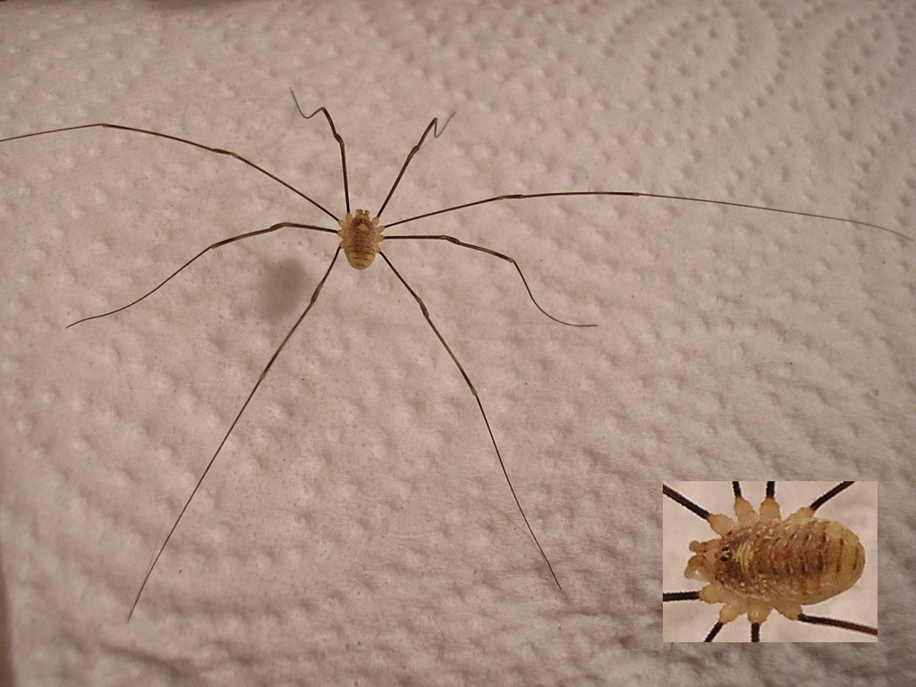 Harvestman, Opilio canestrinii probably female (det. Hay Wijhoven - Thanks!). Location: Urban kitchen, Hengelo, Overijssel, Netherlands Keywords: Opilio canestrinii, Harvestman